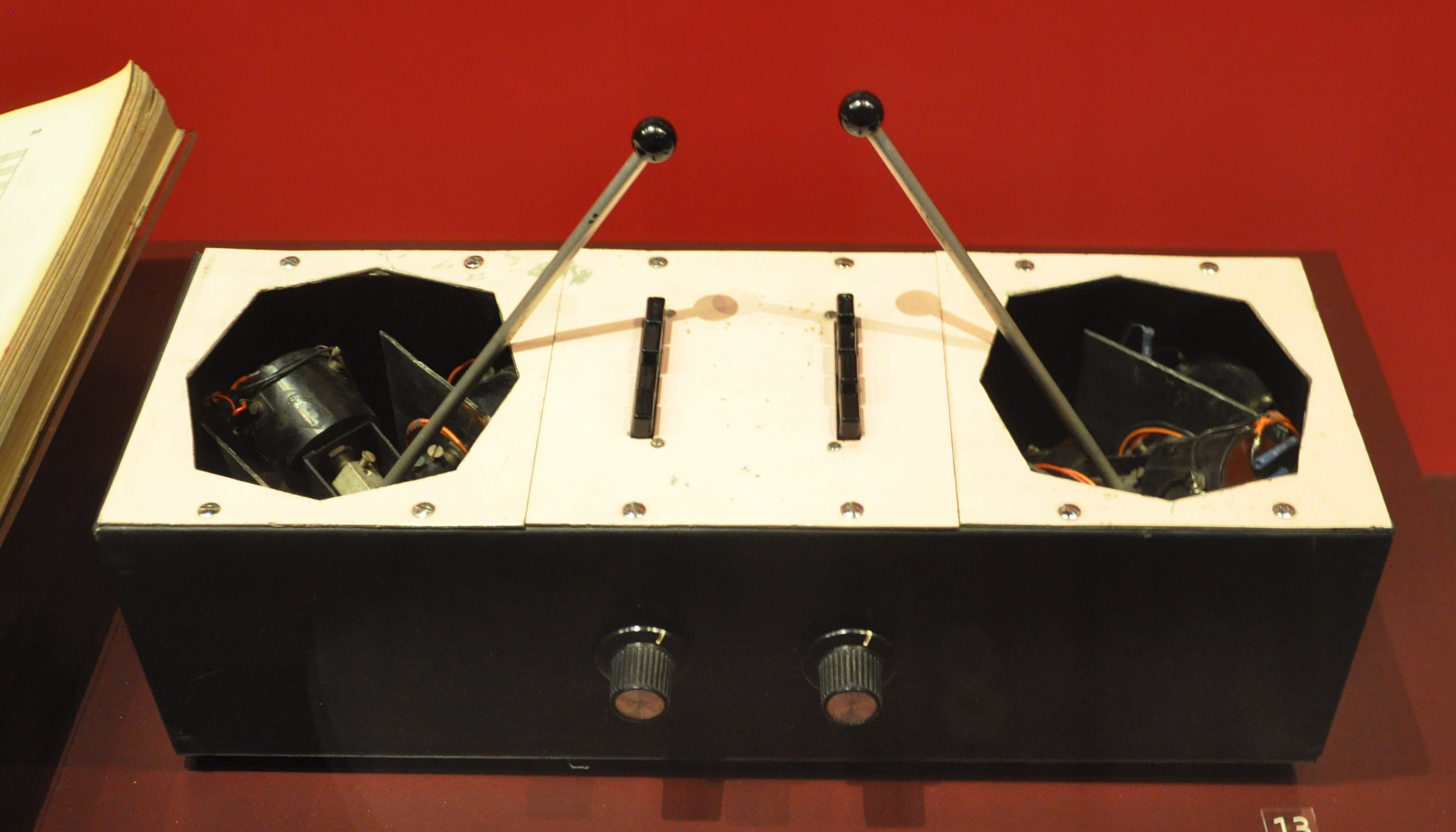 Azimuth Co-ordinator, made by Bernard Speight, used by Pink Floyd, 1969 Victoria and Albert Museum, London, Museum number: S.294-1980, given by Pink Floyd Music Publishing Link